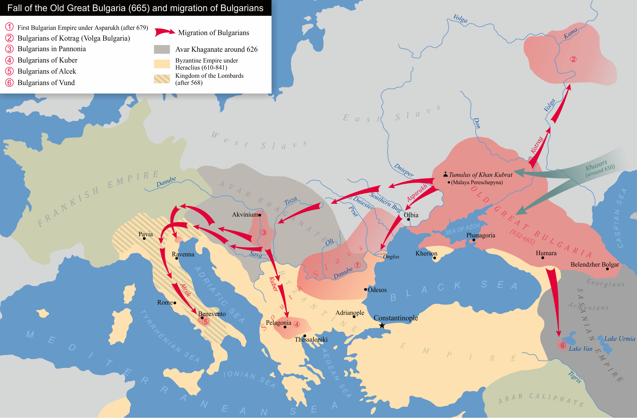 Fall of the Old Great Bulgaria (665) and migration of Bulgarians. Основана на карта "Българи и славяни VII-VIII век" в "Атлас по история и цивилизация за 11 клас", издателство "Картография", София, 2007 г. [1]